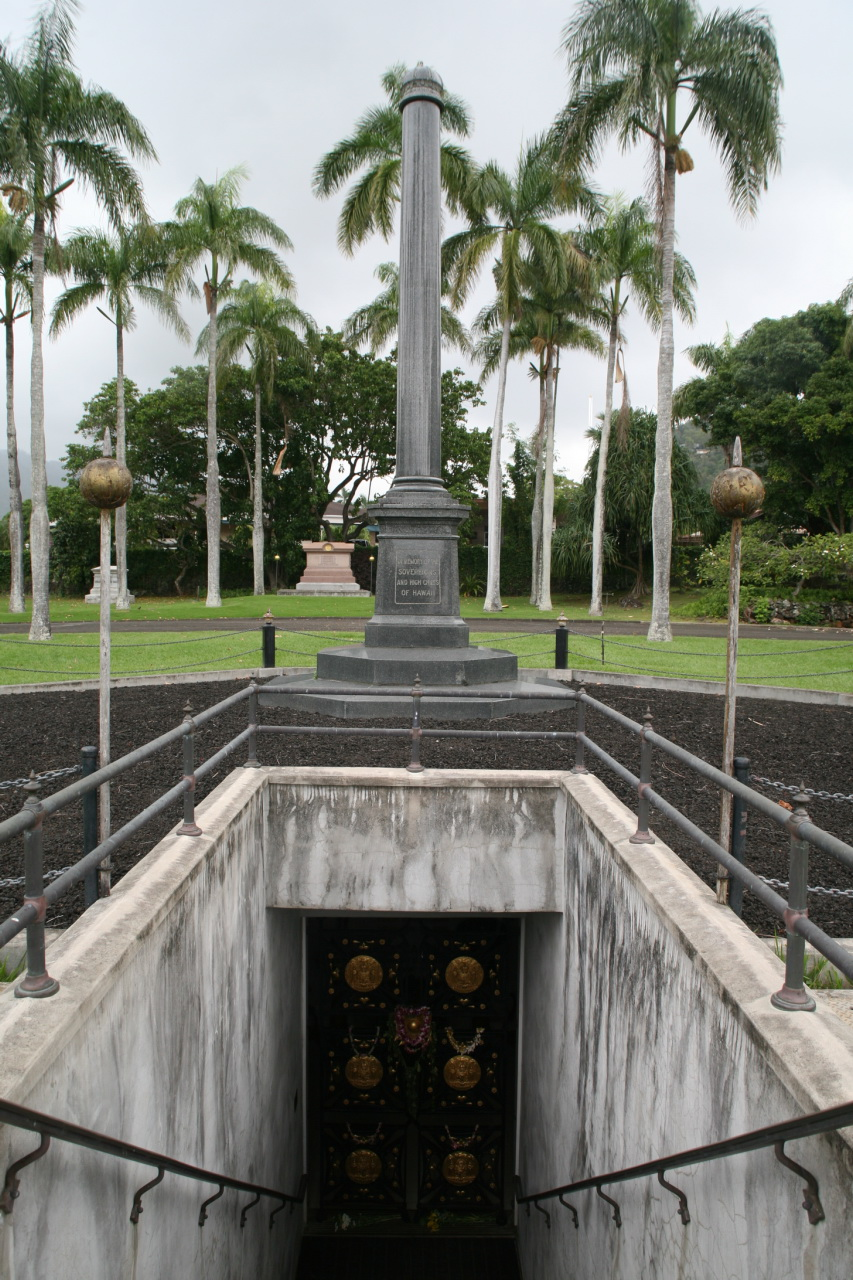 Stairs to Kalakaua and his families Crypt.